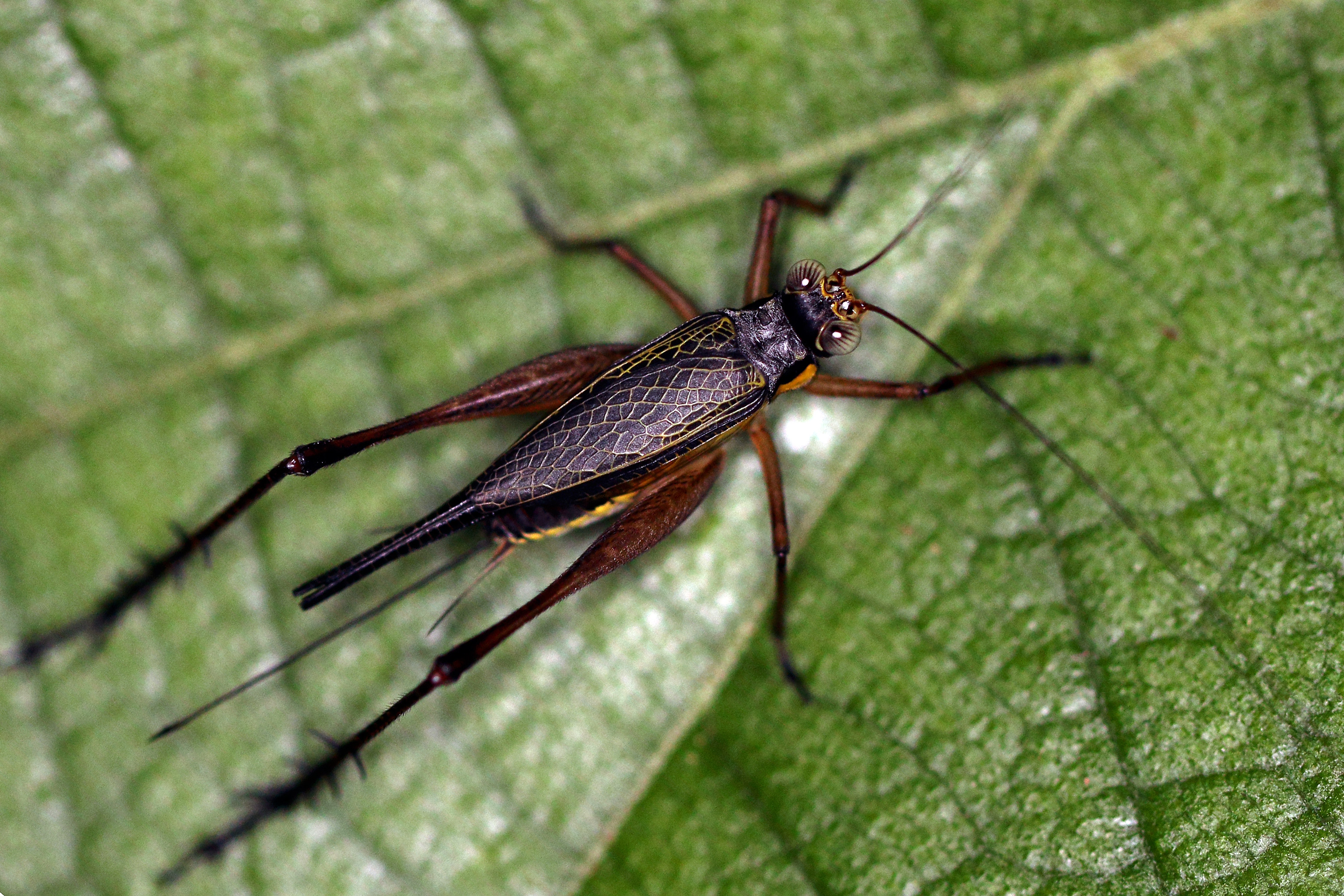 Bush cricket (Nisitrus vittatus), Sabah, Borneo